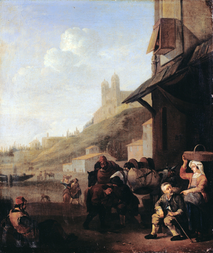 The twin towers of the church of Trinità dei Monti are seen in the background.